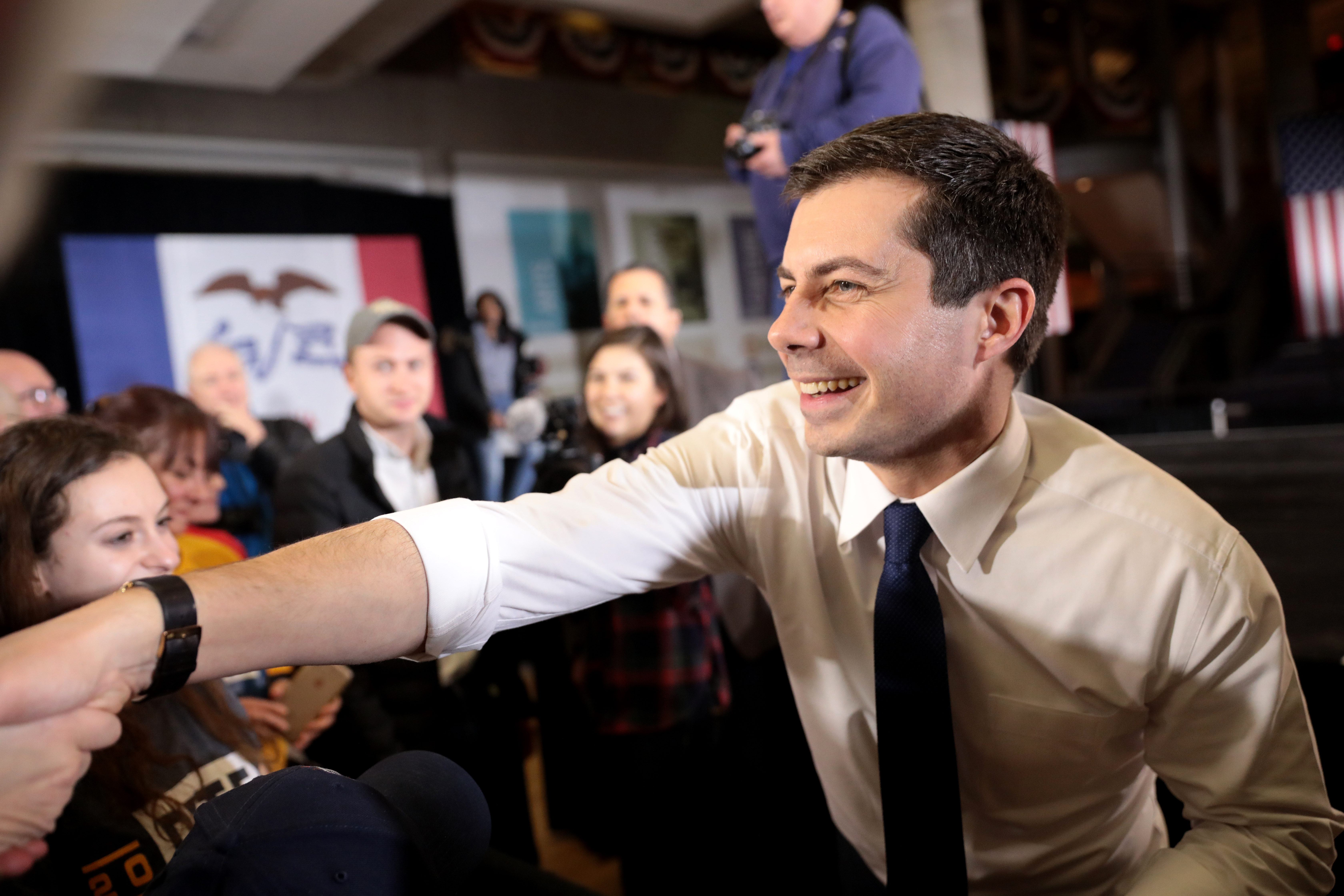 Mayor Pete Buttigieg speaking with supporters at a town hall at the State Historical Museum in Des Moines, Iowa.